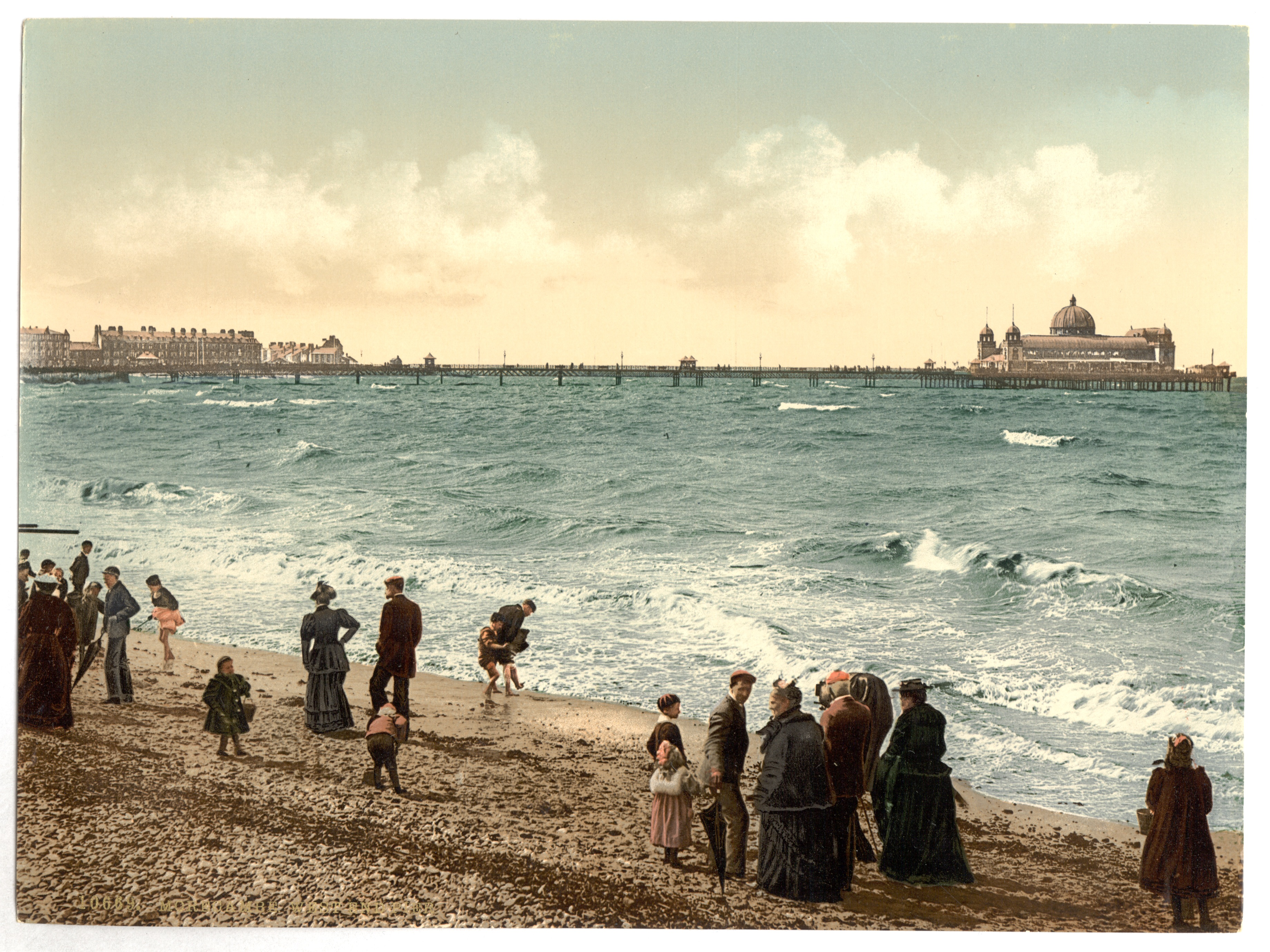 Print no. "10669".; Forms part of: Views of the British Isles, in the Photochrom print collection.; More information about the Photochrom Print Collection is available at Title from the Detroit Publishing Co., Catalogue J-foreign section, Detroit, Mich. : Detroit Publishing Company, 1905.